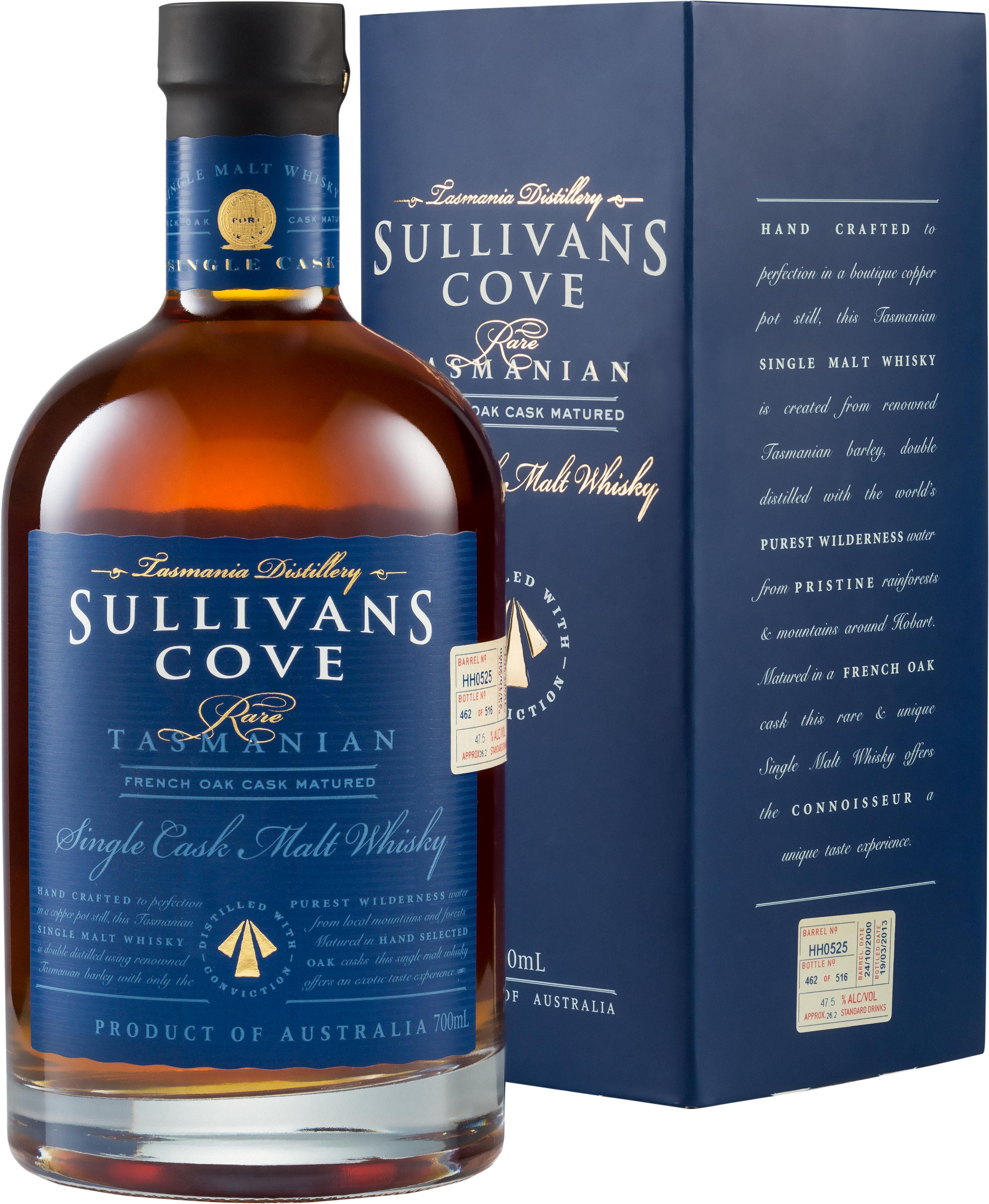 Sullivan's Cover 2014 Single Cask French oak, winner of 2014 world's best whisky award